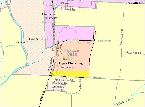 Map of Logan Elm Village, a census-designated place (CDP) in Pickaway County, Ohio, United States, with its boundaries at the time of the 2000 census.